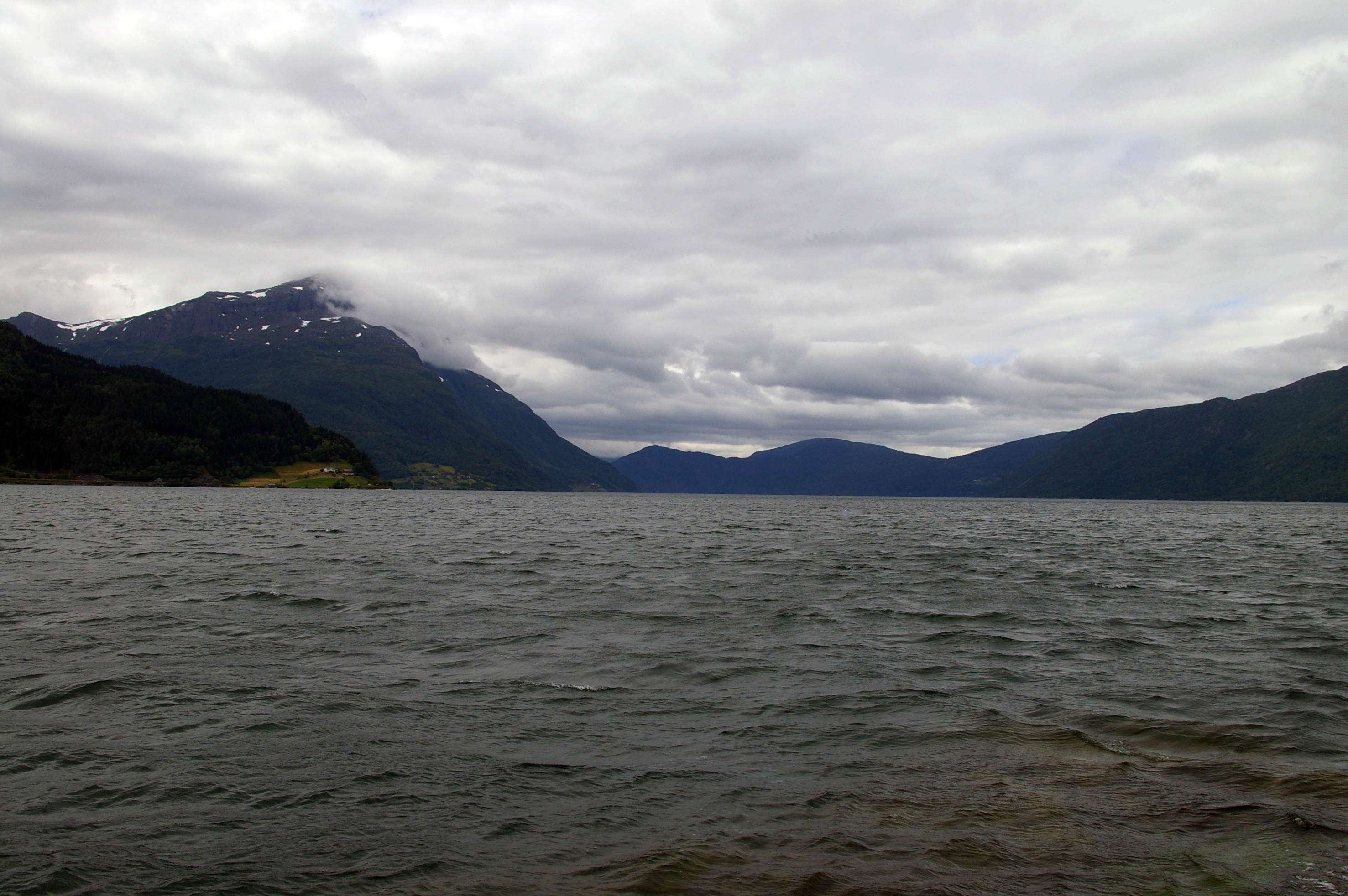 Hundvikfjorden seen from Anda in Sogn og Fjordane, Norway